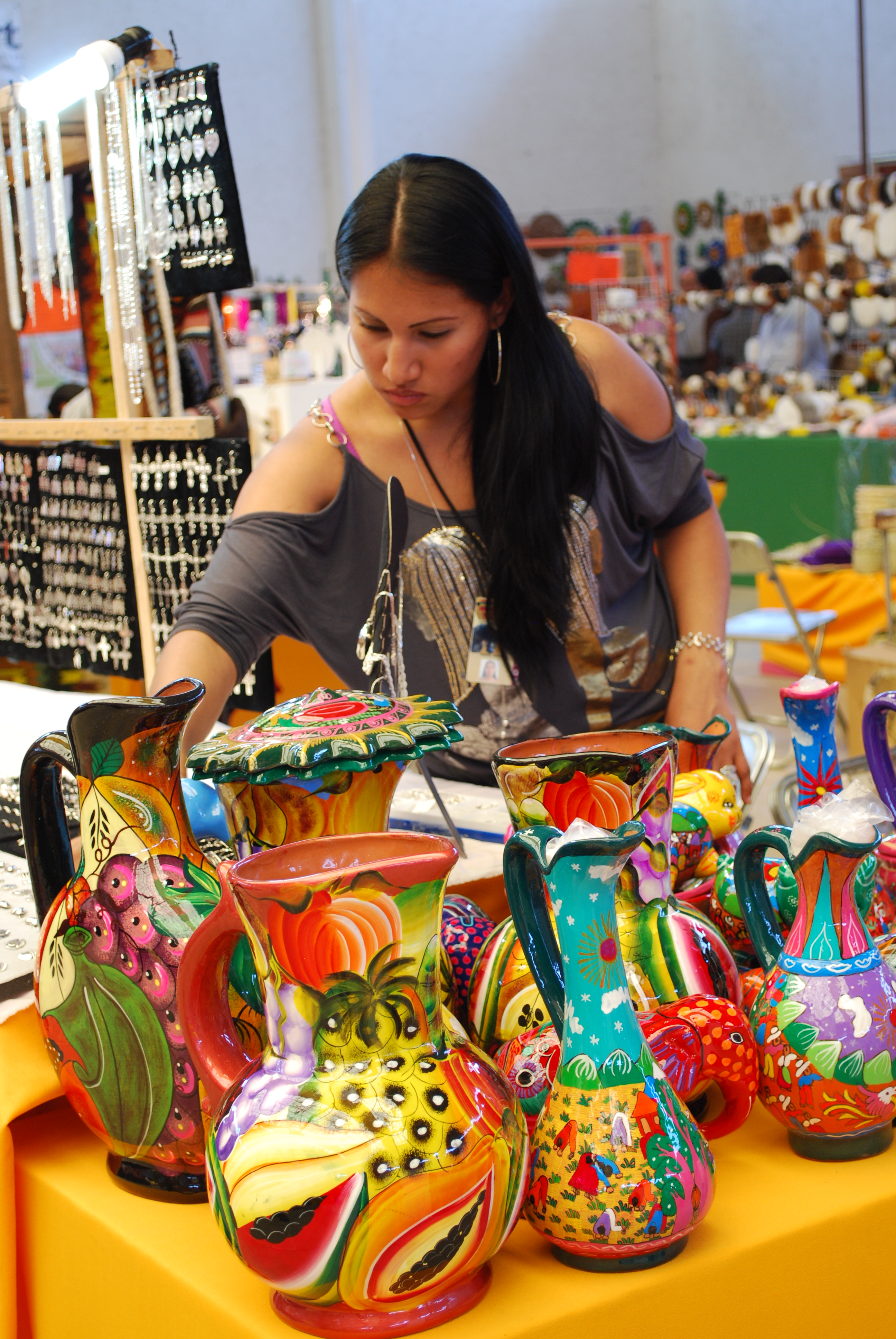 Woman selling painted ceramics at the Feria del Caballo in Texcoco, Mexico State, Mexico